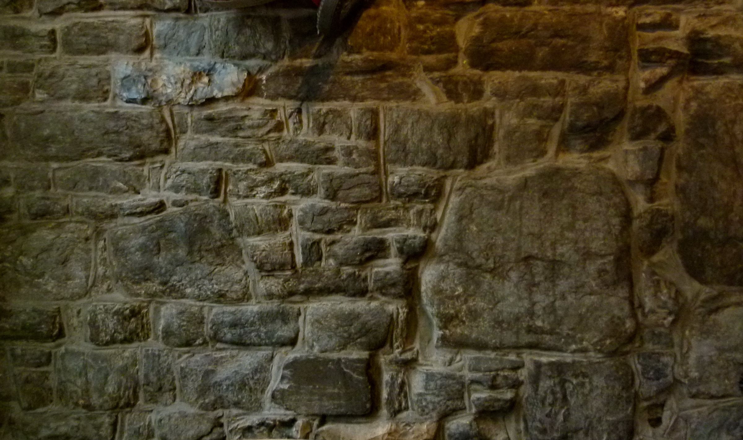 Maastricht, the Netherlands. Detail of a section of the First Medieval City Wall of Maastricht in Café Tribunal at the corner of Tongersestraat and Ezelmarkt.